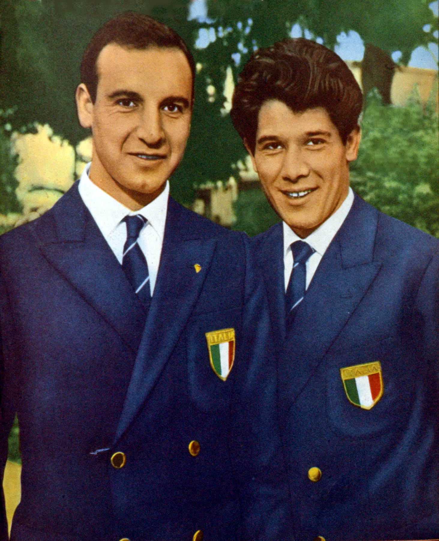 Humberto Maschio and Omar Sívori, the two Argentine players of 1962 Italian team